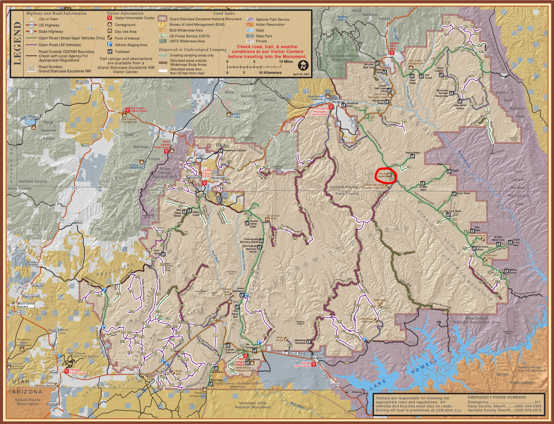 Official park map from Bureau of Land Management (BLM) website for Grand Staircase-Escalante National Monument (GSENM), Utah, USA with the Devils Garden area circled in red. PDF file converted to JPG format and edited by Brian W. Schaller using the GNU Image Manipulation Program (GIMP).